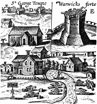 Town of St. George's and Warwick Fort in Bermuda (1614)